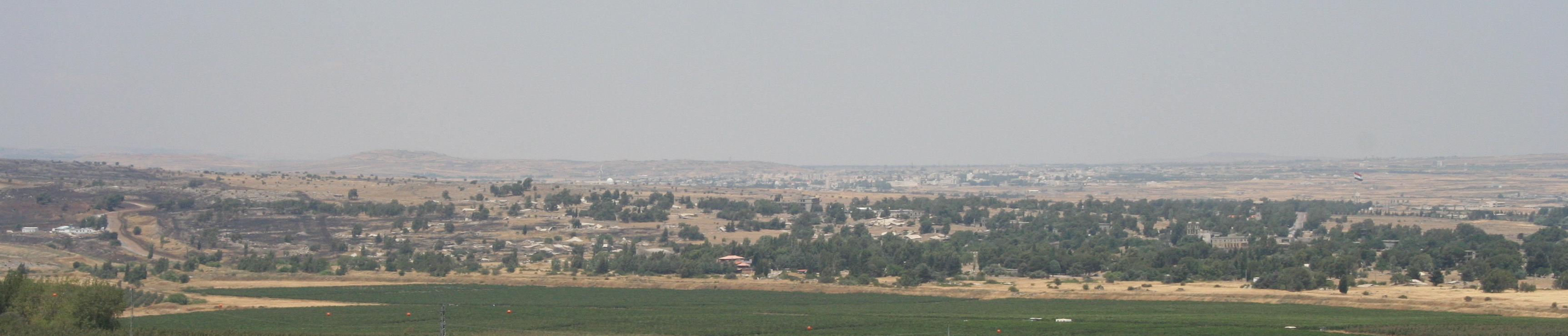 Panoramic view of Quneitra from West. The ruins of the pre-1967 city are on the forefront (notice the large Syrian flag at the right quarter of the picture), while the new city is in the backdrop.